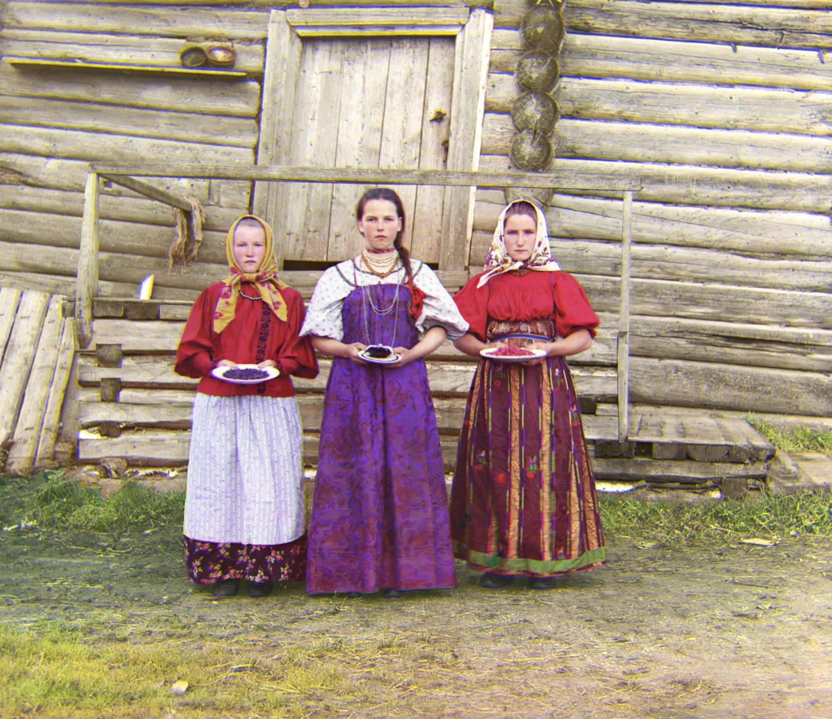 Young Russian peasant women in front of traditional wooden house, in a rural area along the Sheksna River near the small town of Kirillov. Early color photograph from Russia, created by Sergei Mikhailovich Prokudin-Gorskii as part of his work to document the Russian Empire from 1909 to 1915.